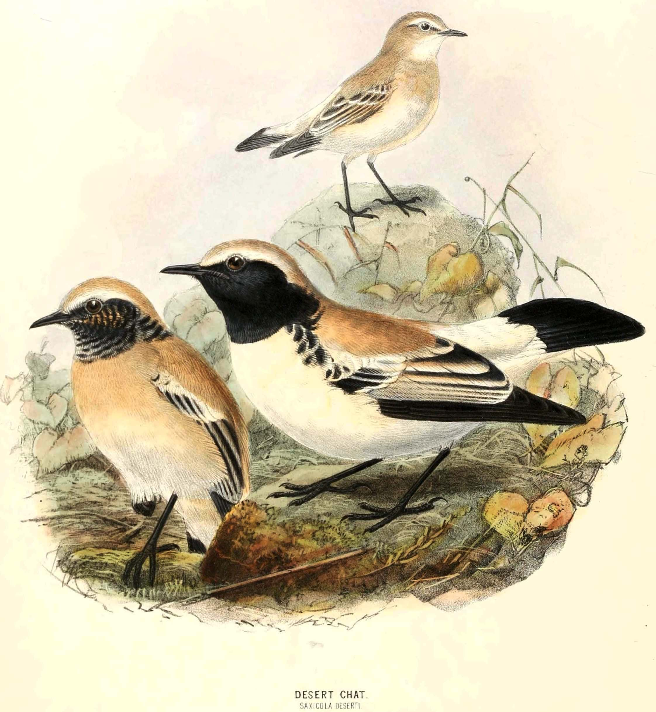 Oenanthe deserti Dresser